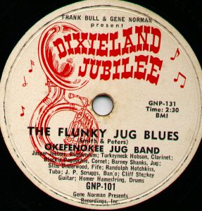 Dixieland Jubilee Records 78rpm disc label